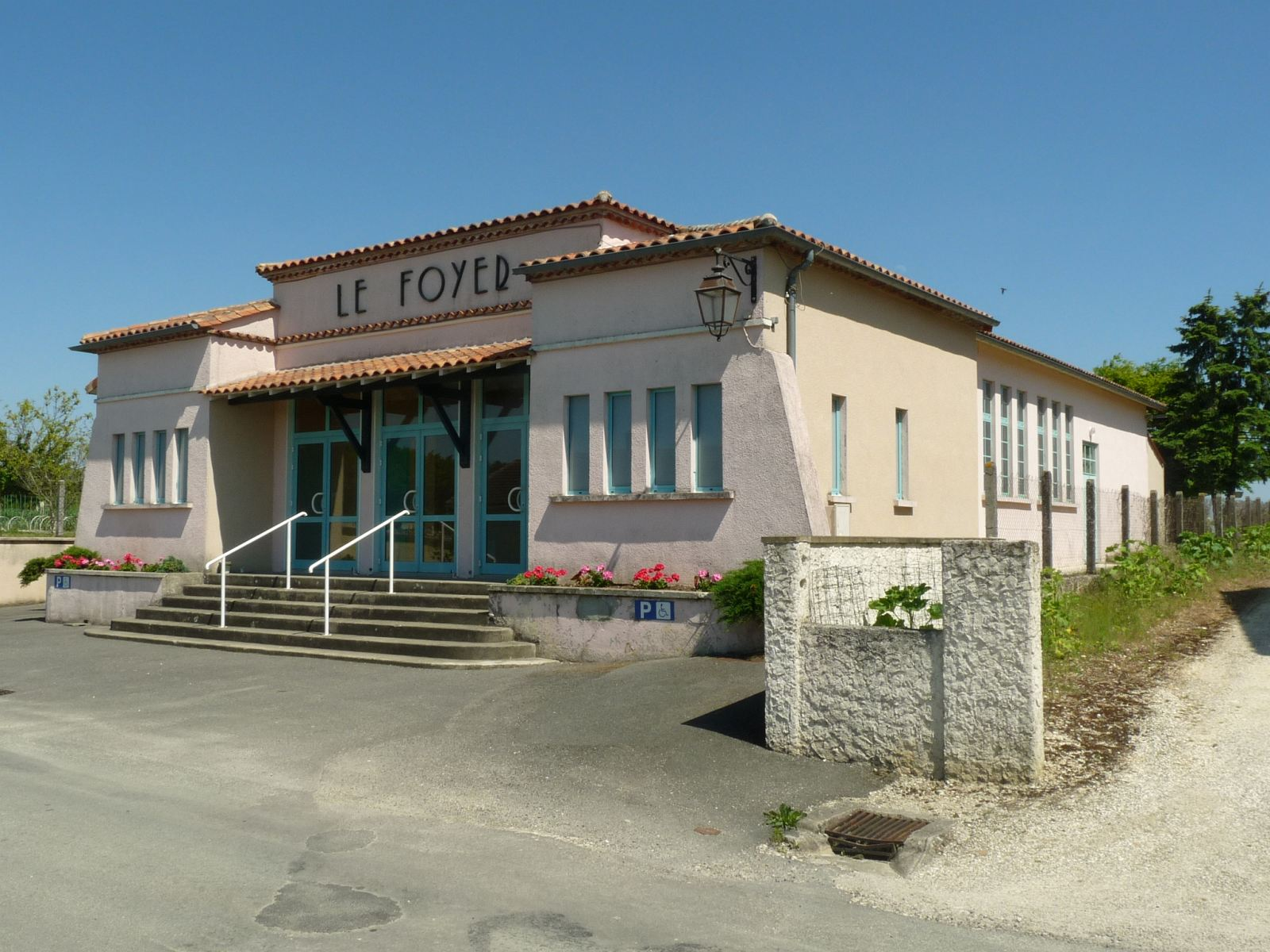 community hall of Les Essards, Charente, SW France